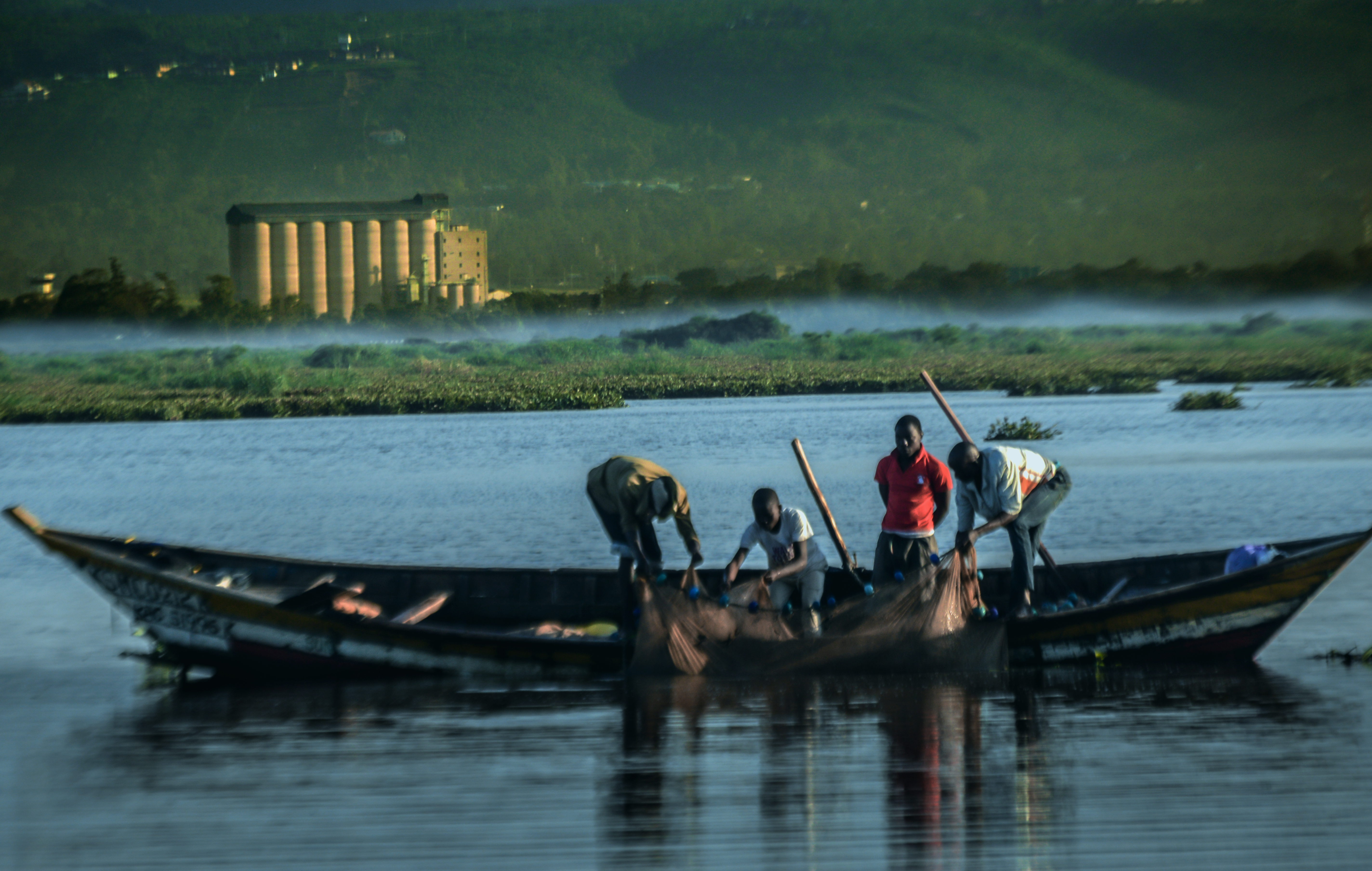 This is a photo of fishermen in Lake Victoria in an early morning who had come to gather their catch after laying out the fish nets at night. This is an image of "African people at work" from Kenya